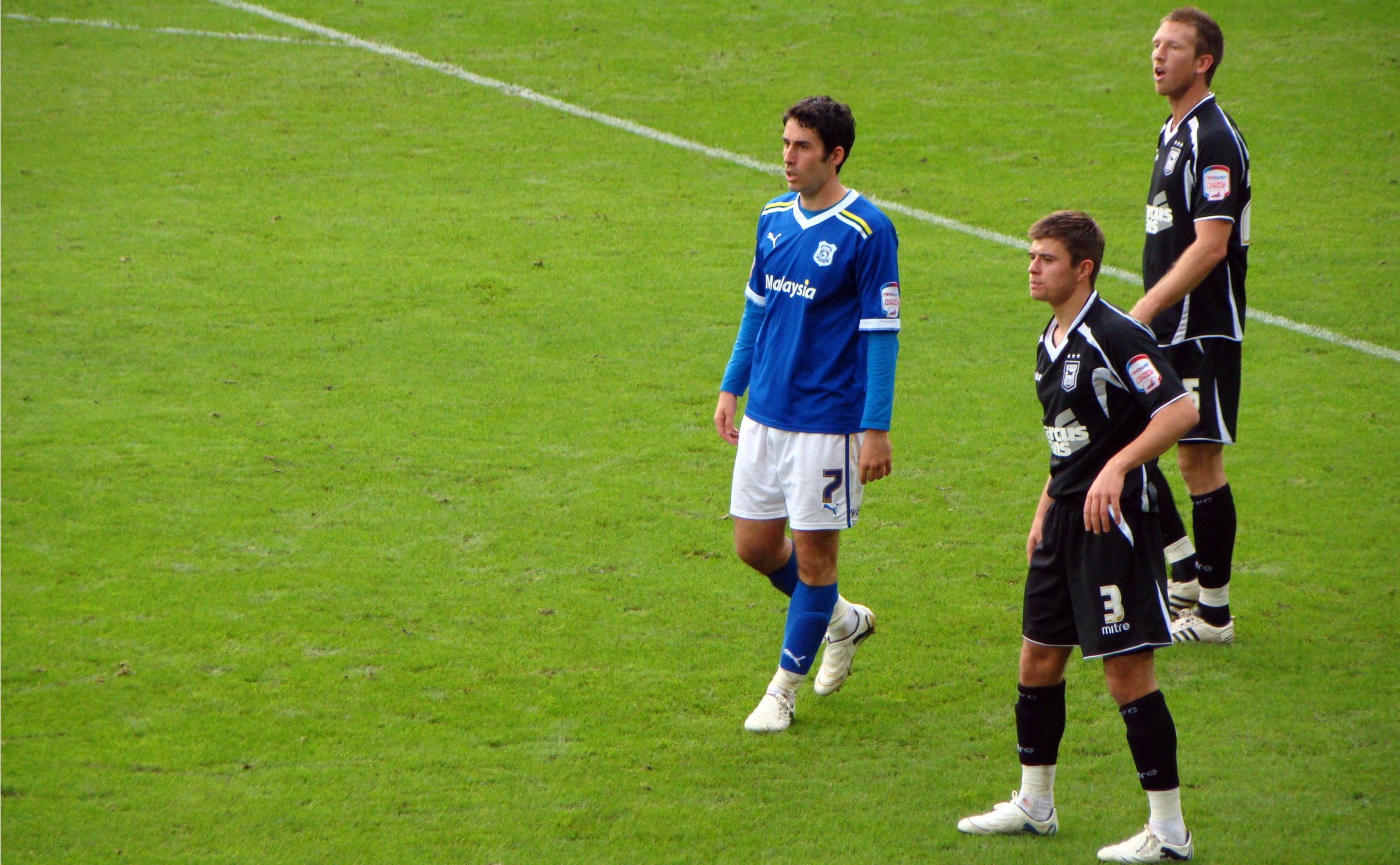 15/10/11 Cardiff v Ipswich, Championship, Cardiff City Stadium, Cardiff, Wales